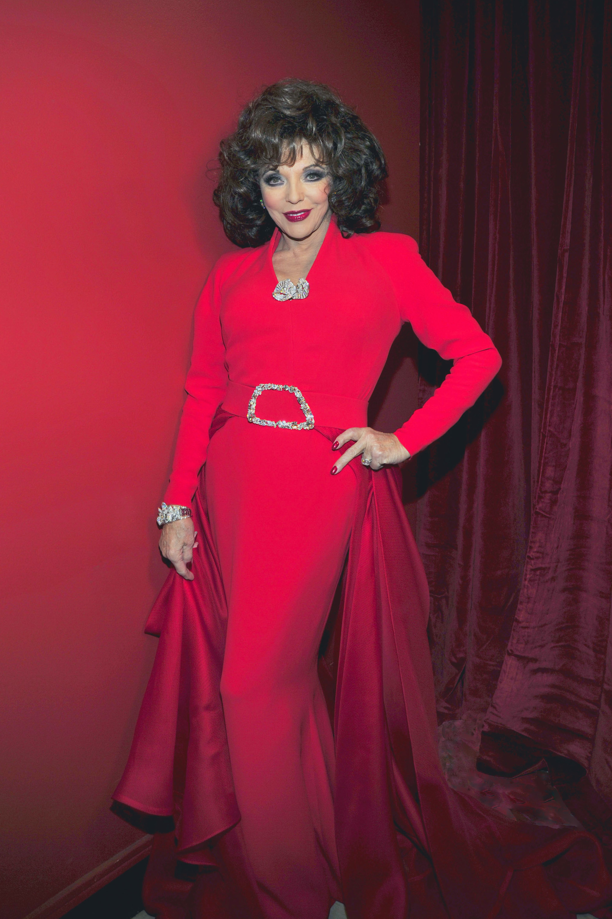 Joan Collins in Stéphane Rolland, 2010 The Heart Truth® is a national awareness campaign for women about heart disease sponsored by the National Heart, Lung, and Blood Institute (NHLBI), part of the National Institutes of Health, U.S. Department of Health and Human Services (HHS). The Red Dress®, introduced by the NHLBI in 2002, is the national symbol for women and heart disease awareness. Visit for information on women and heart disease. Joan Collins== HEART TRUTH RED DRESS 2010 Collection== NY Public Library, NYC== February 11, 2010== © Patrick McMullan== Photo - PATRICK MCMULLAN/PatrickMcMullan.com== == ®, TM The Heart Truth, its logo and The Red Dress are trademarks of HHS. Participation by Mercedes-Benz Fashion Week, Diet Coke, Swarovski, Tylenol, St. Joseph's Aspirin, Bobbi Brown, and Brian Atwood does not imply endorsement by HHS.